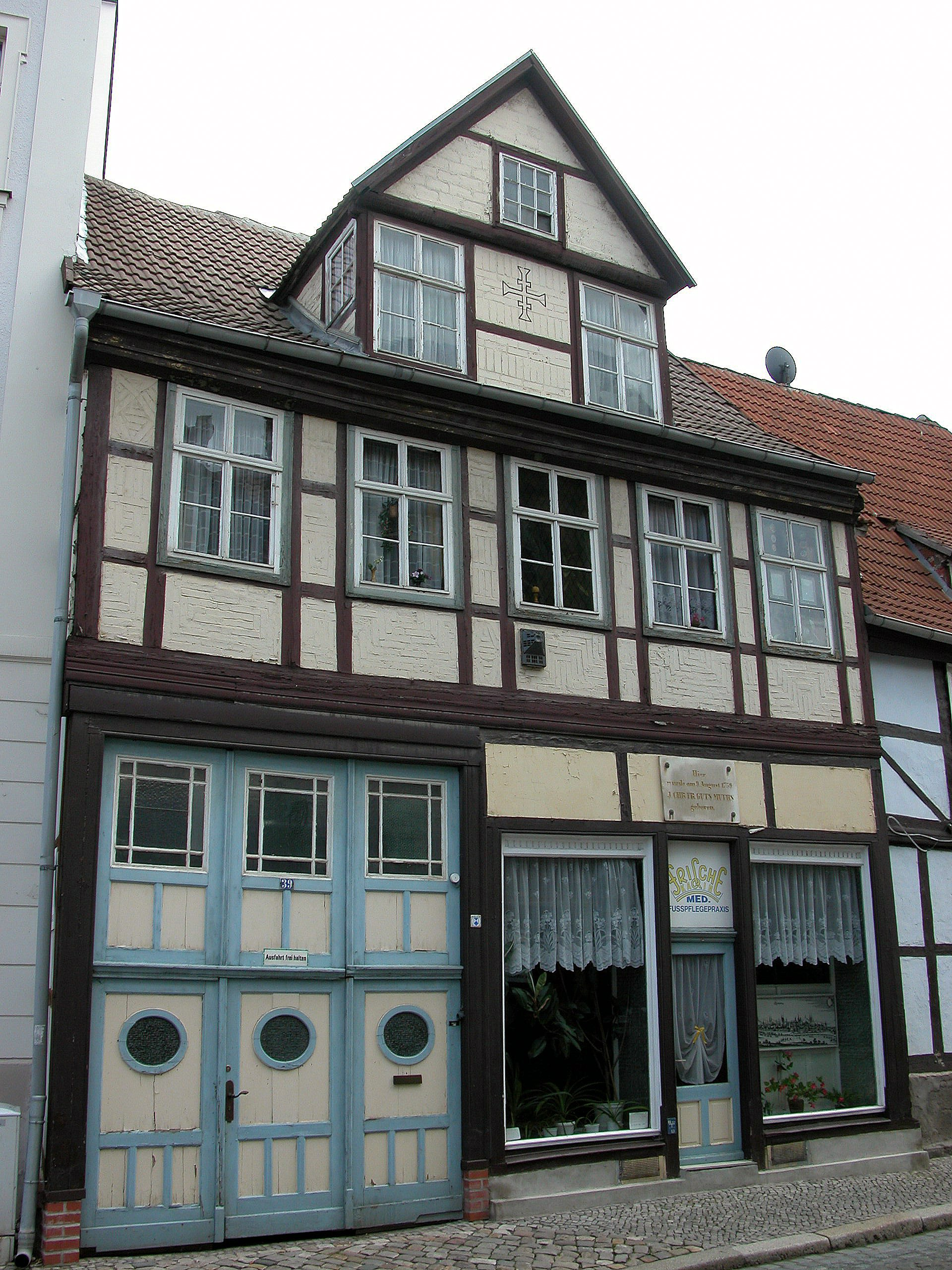 Quedlinburg, Germany: Birthplace of Johann Christoph Friedrich GutsMuths.